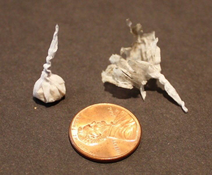 William "willster3" Carpenter, own work. A commercially produced bang snap novelty firework next to a used bang snap with a US penny for scale.